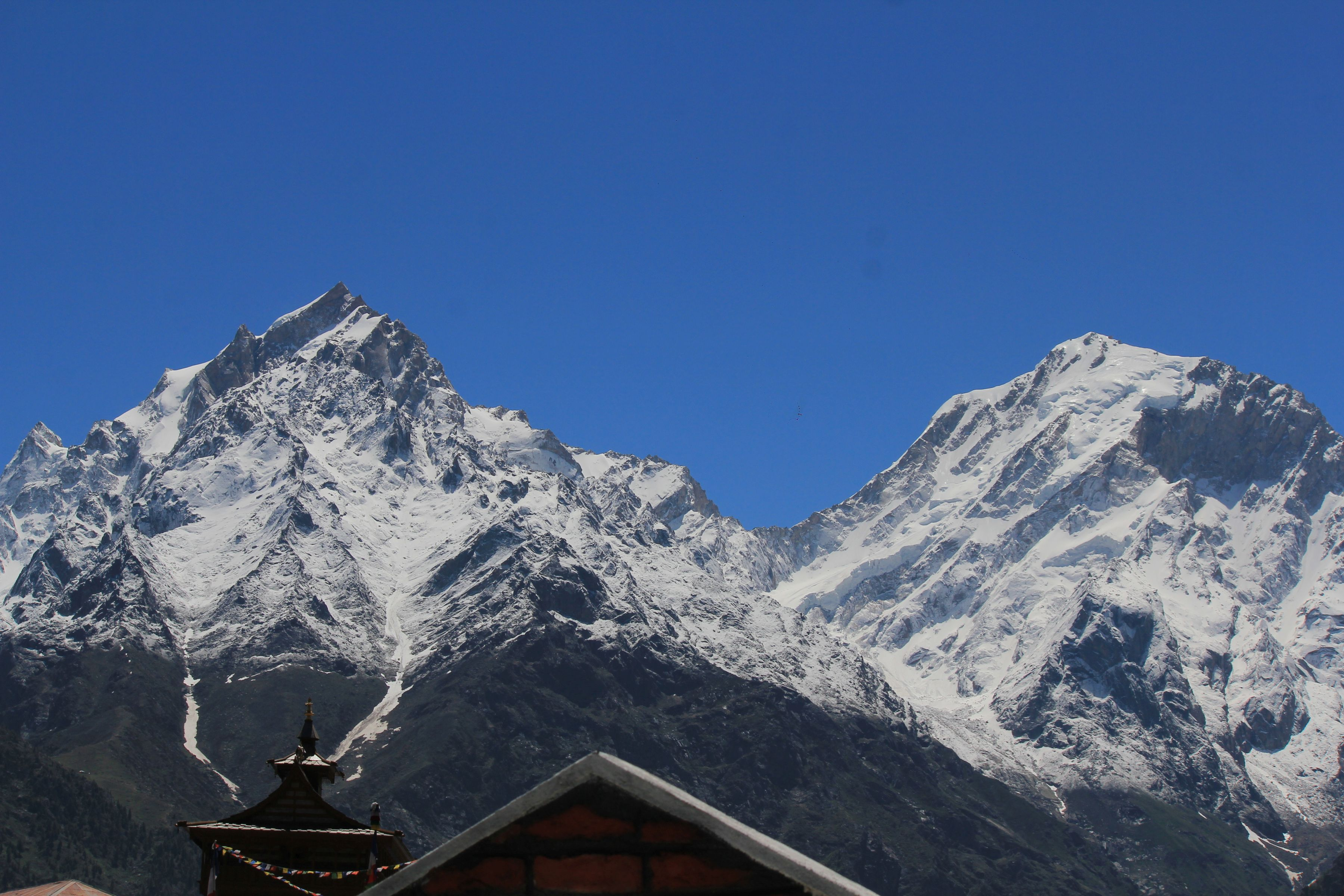 Kinnaur kailash(6050m) and Jorkanden (6473 m) from Kalpa